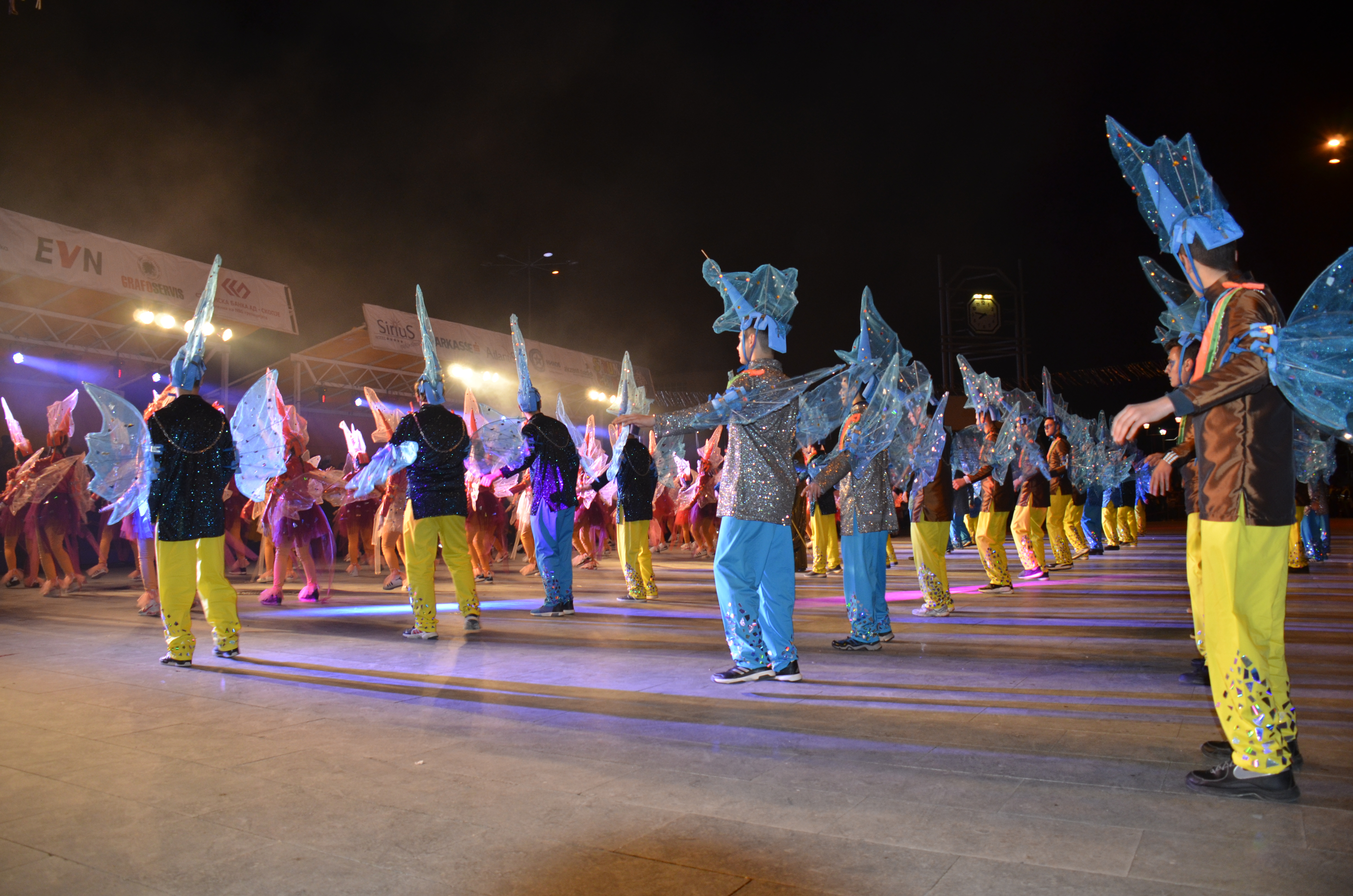 Carnival group performing at the 2017 Strumica Carnival.